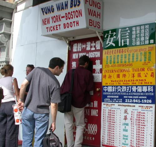 Fung Wah Ticket Booth, Manhattan © 2004 Matthew Trump (User:Decumanus)